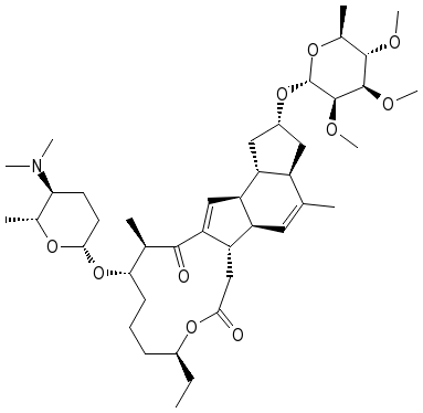 spinosyn D, component of insecticide spinosad